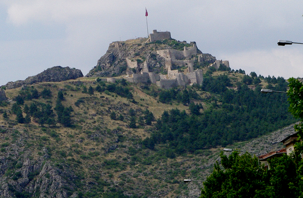 A view of Amasya Castle from the downtown of Amasya.